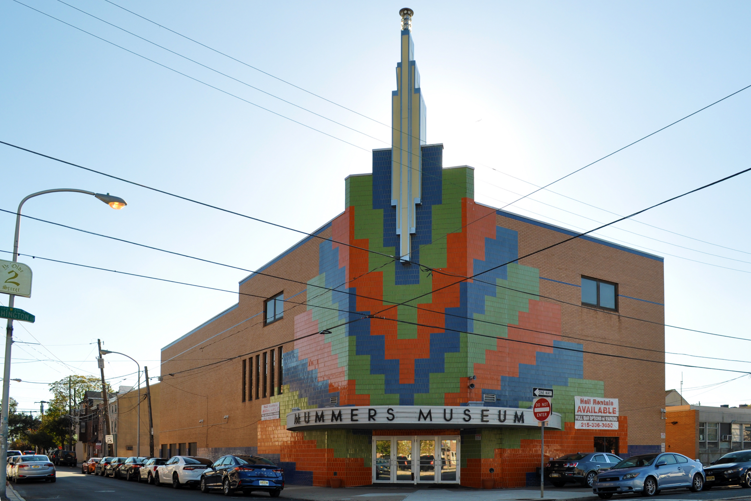 Mummers Museum 1100 S 2nd St Philadelphia PA 19147